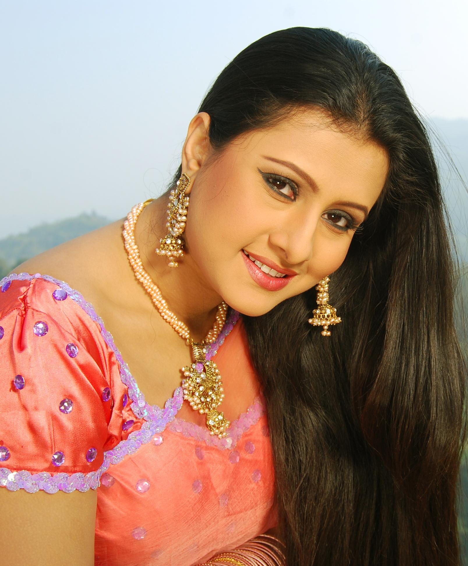 Purnima in between the shooting in Rangamati hill district 2008